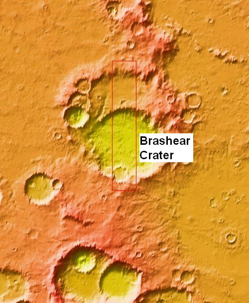 MOLA view of Brashear Crater. Location is near to 54 S and 118 W.